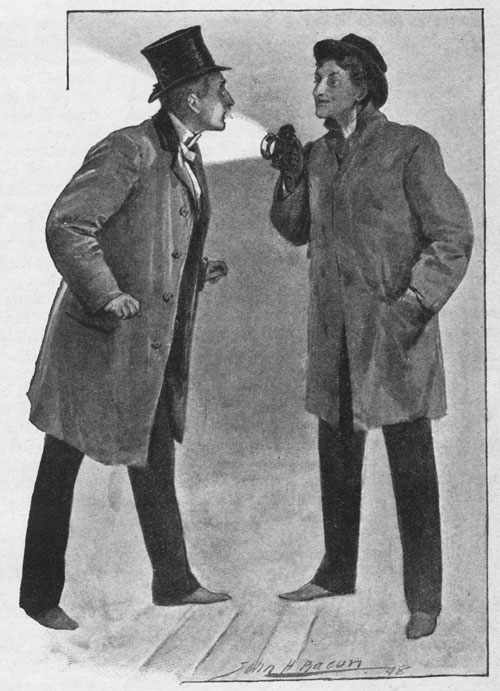 June 1898 illustration of A. J. Raffles (right) with Bunny Manders, drawn by John H. Bacon in Cassell's Magazine for E. W. Hornung's short story "The Ides of March".